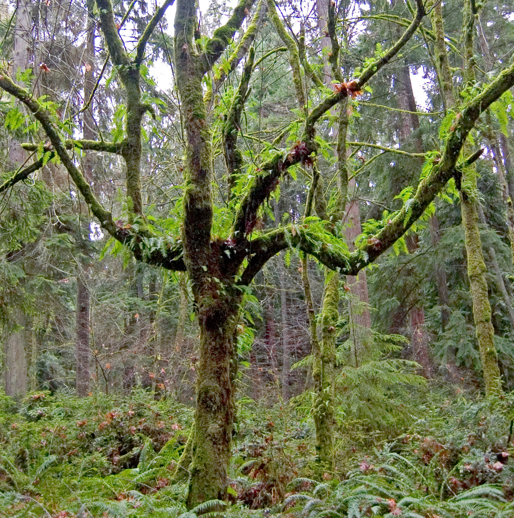 Epiphytes, Ferns on a tree. – "Aerial Garden. I love the maple trees in the Pacific Northwest that are totally bedecked with mosses, lichens, and ferns. Some trees are whole ecosystems." Tacoma. USA.